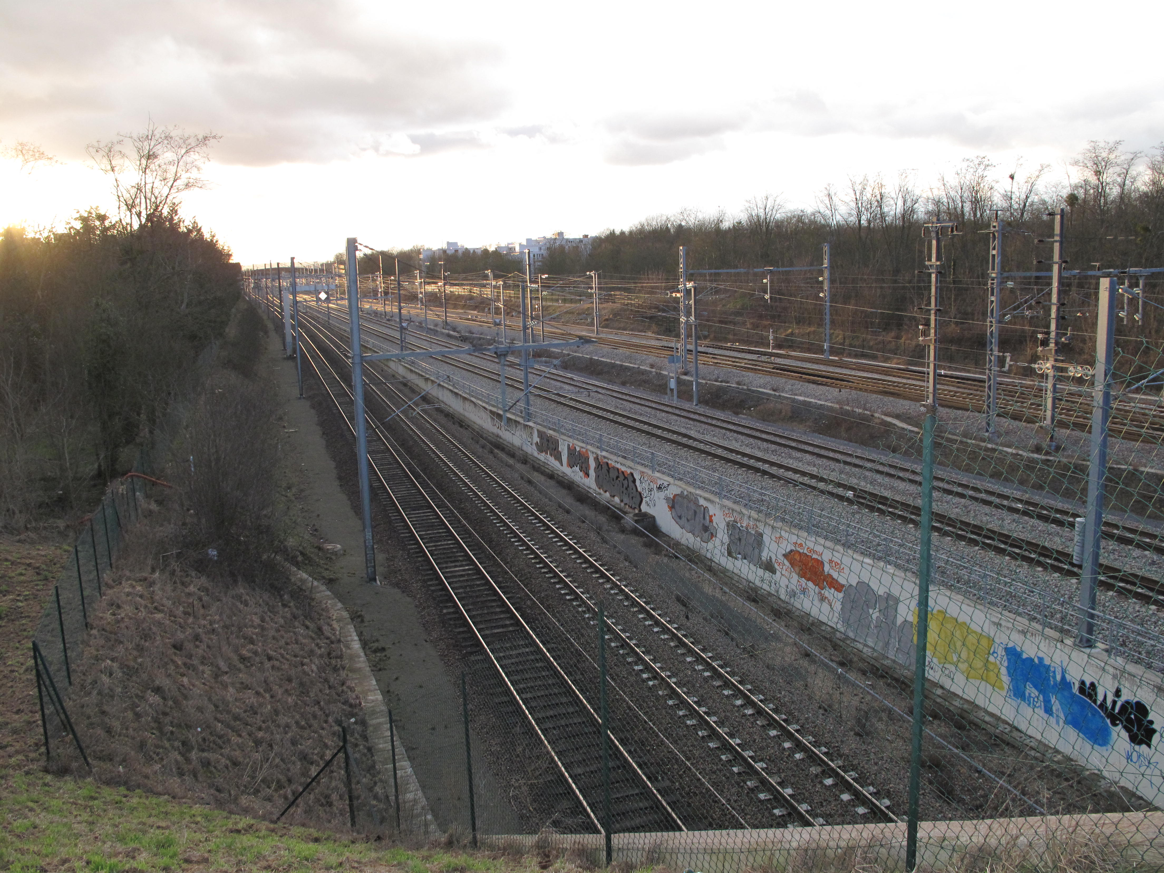 The rail tracks of Vaires-sur-Marne, France. In the background, the station. On the left, the double track for trains incoming from Meaux. In the middle, the ramp with the double track of the TGV for Strasbourg and Germany.